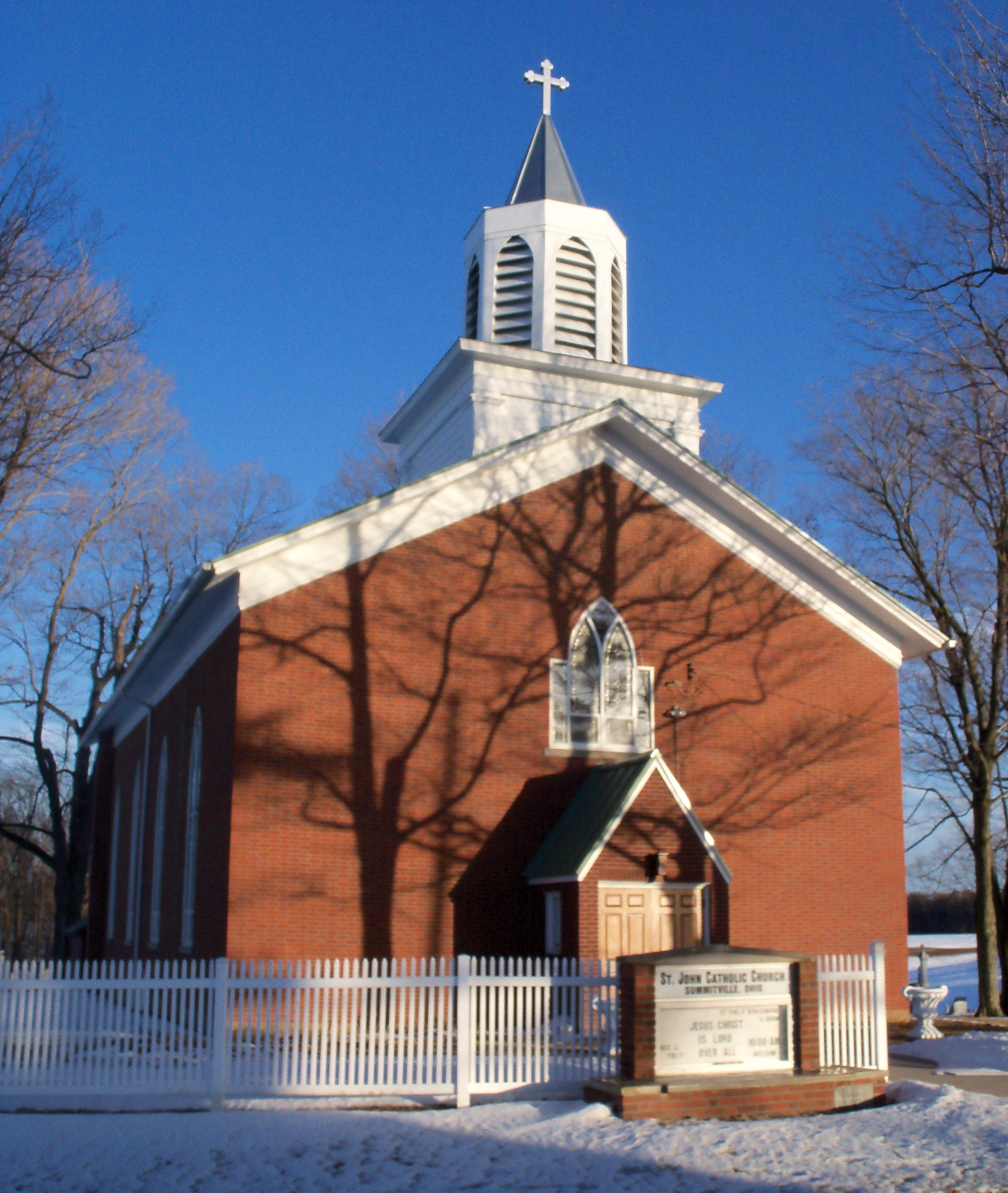 old Catholic Church near Summitville, Ohio.